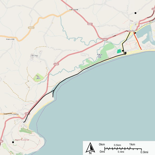 Pwllheli and Llanbedrog and Pwllheli Corporation Tramways Legend: ━━━ Pwllheli Corporation Tramways ━━━ Pwllheli and Llanbedrog Tramways Source = Geospatial data sources: Open Street Map Data (CC-SA-BY) NORTAD (public domain) Natural Earth (public domain)